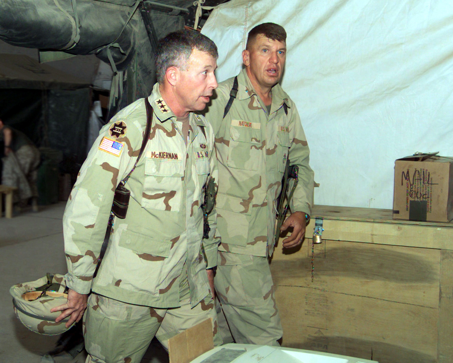 US Army (USA) Lieutenant General (LGEN) David D. McKiernan, Commander, Coalition Forces Land Component Command (CFLCC), and US Marine Corps (USMC) Brigadier General (BGEN) Richard F. Natonski, Commander, Task Force Tarawa, enter the Combat Operations Center (COC) of Task Force Tarawa at Blair Field in Iraq, during Operation IRAQI FREEDOM.